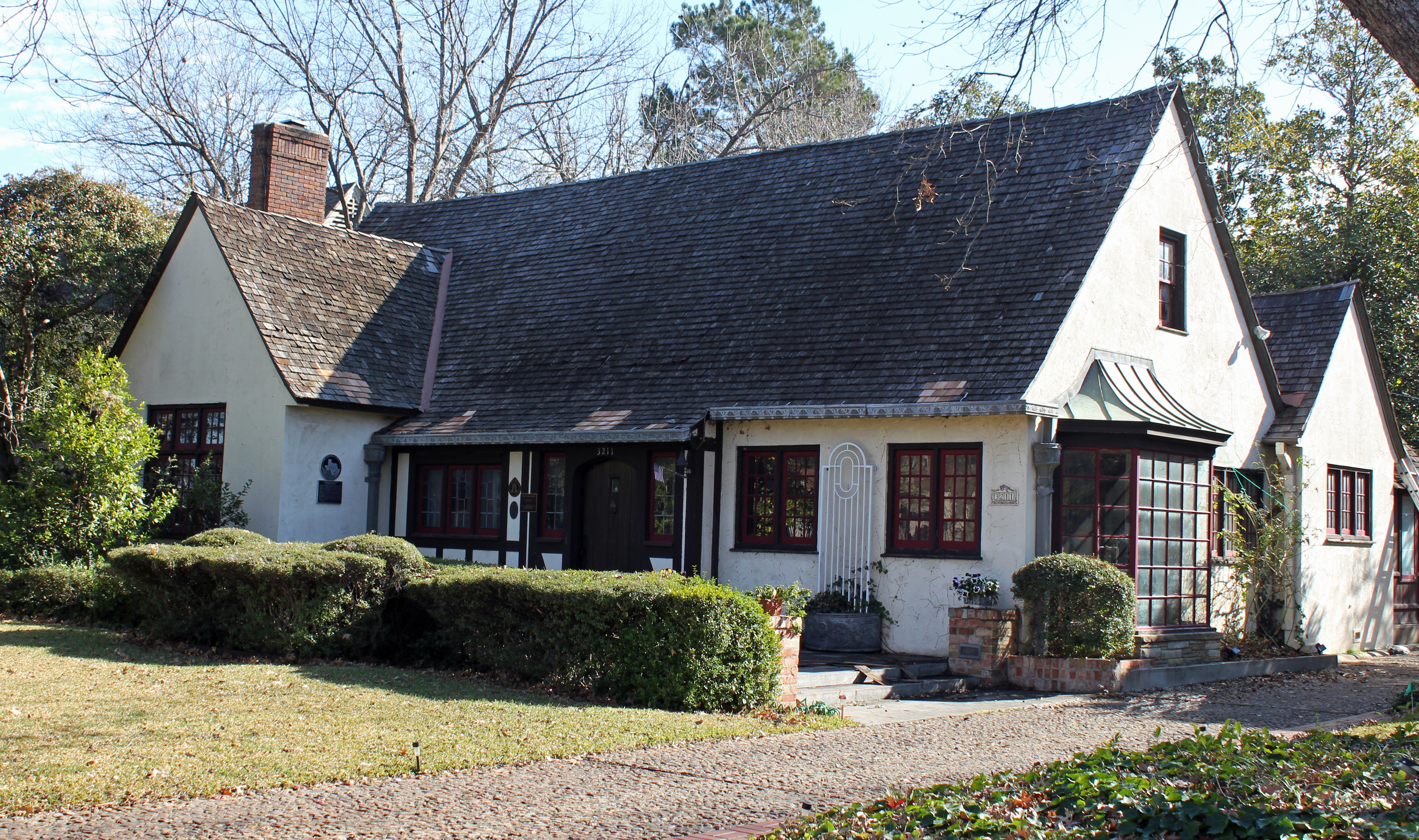 The Mark and Maybelle Lemmon House, located at 3211 Mockingbird Land in Highland Park, Texas. The house is listed on the National Register of Historic Places.